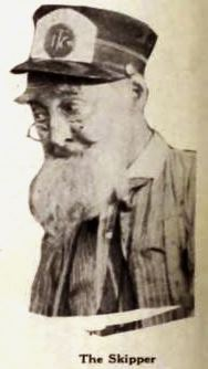 Detail from an advertisement for the American comedy short film The Skipper's Narrow Escape (1921) with Dan Mason, on page 28 of the October 23, 1920 Exhibitors Herald. One of the "Toonerville Trolley" films.